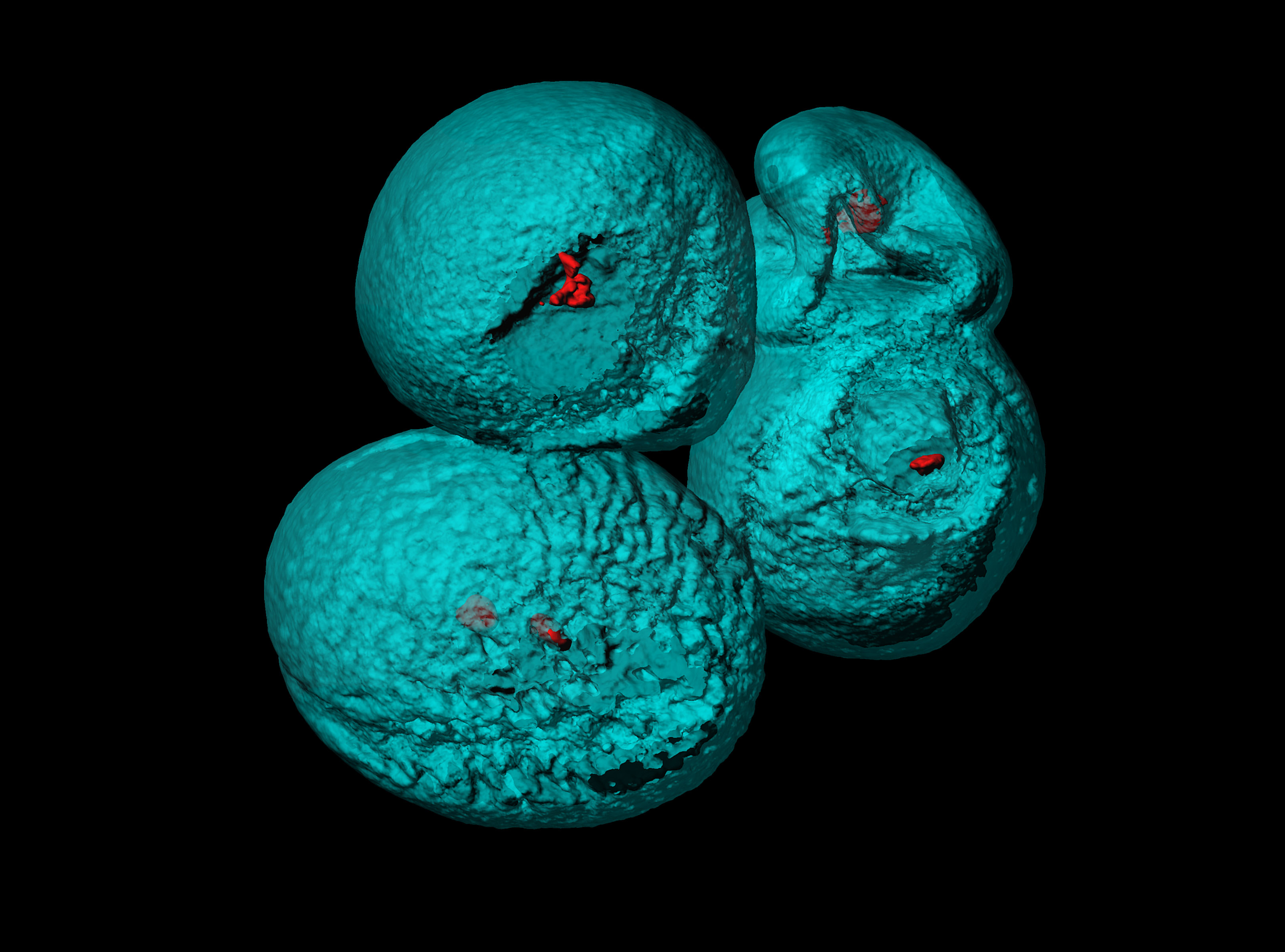 Arabidopsis thaliana pollen grains. Colored with fluorescent DNA color Hoechst 33342. 3D image is achieved with surface rendering with confocal microscope. Tallinn University of Technology.